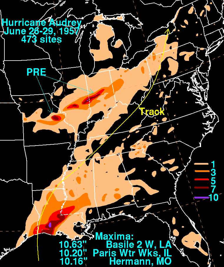 Storm total rainfall map of Hurricane Audrey during June 1957.